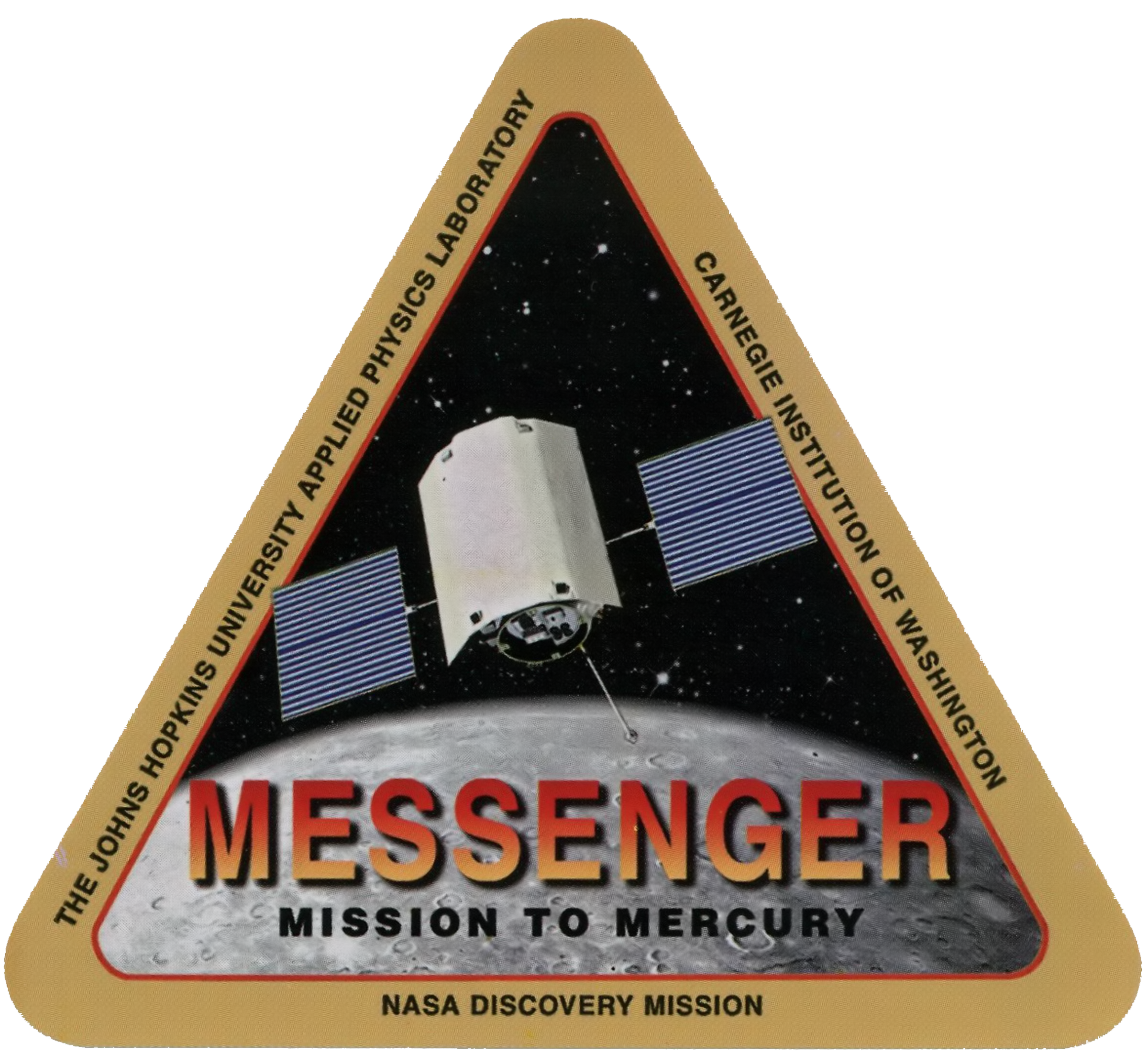 MESSENGER mission emblem